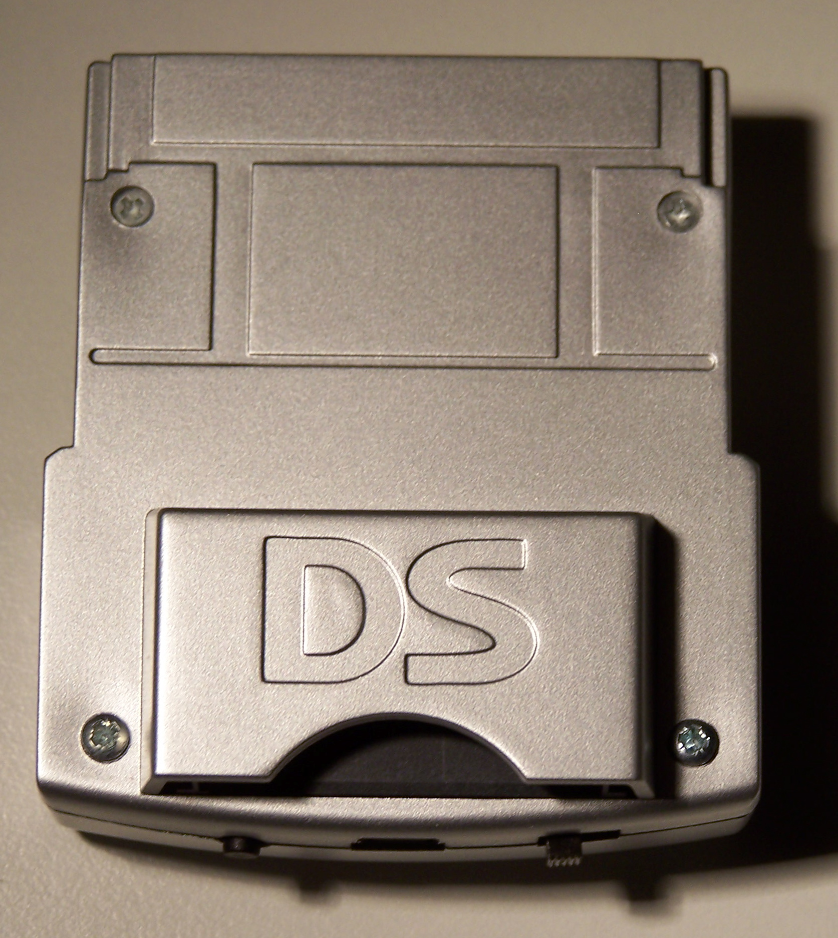 Action Replay MAX DUO for the Nintendo DS and Game Boy Advance